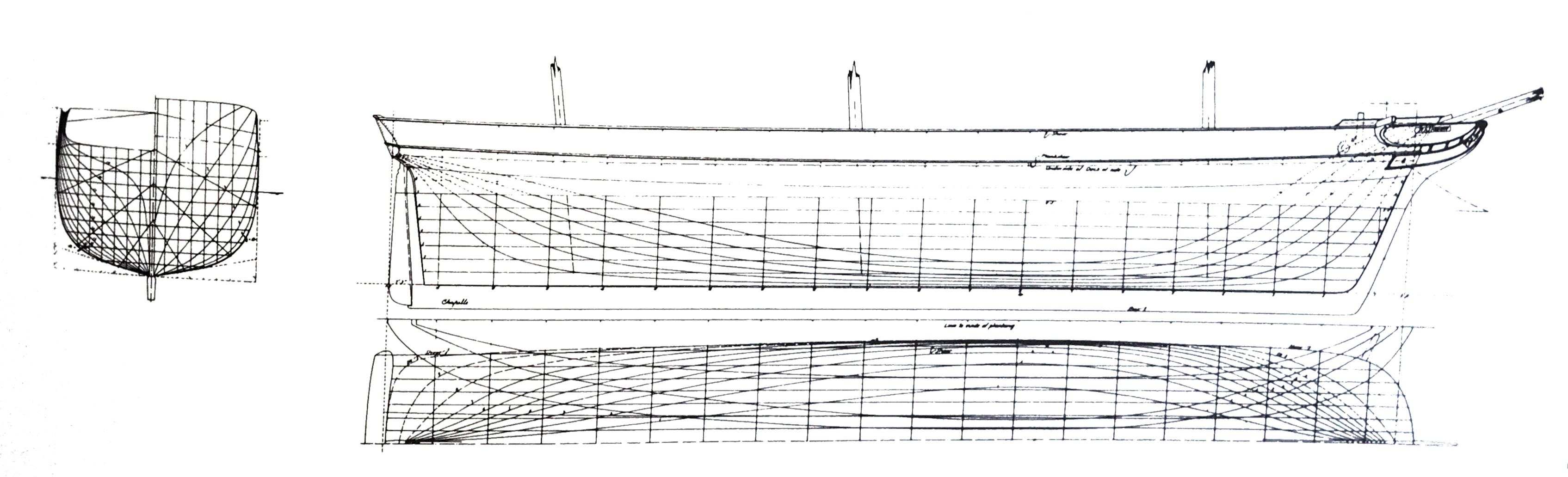 Plan and elevation of the US clipper Rainbow